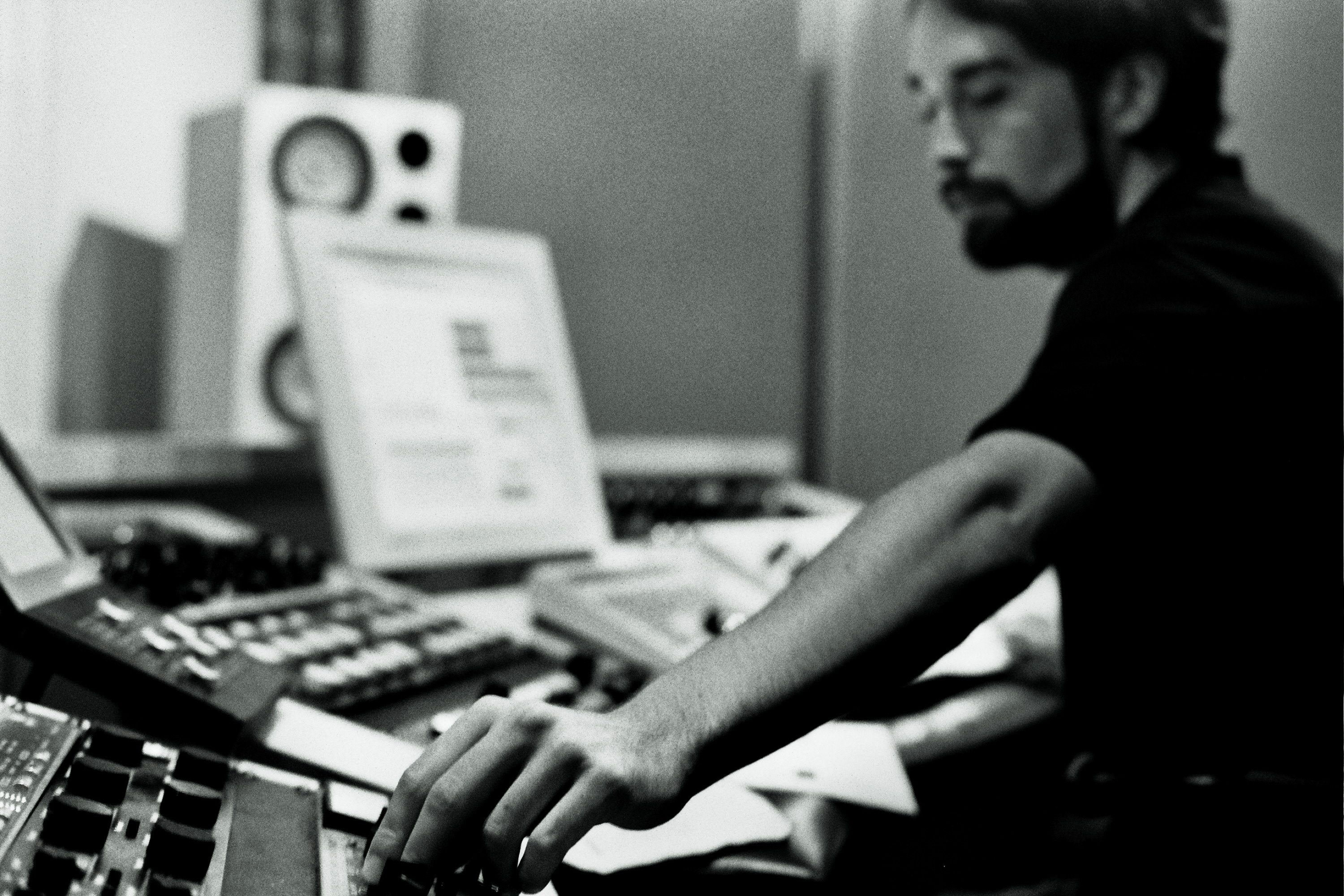 Dan Millice is mastering engineer from New York City